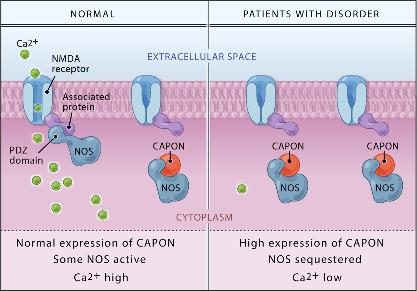 Binding of CAPON results in a reduction of NMDA receptor/nitric oxide synthase (NOS) complexes, leading to decreased NMDA receptor–gated calcium influx and a catalytically inactive nitric oxide synthase. Overexpression of either the full-length or the novel shortened CAPON isoform as reported by Brzustowicz and colleagues is, therefore, predicted to lead to impaired NMDA receptor–mediated glutamate neurotransmission.